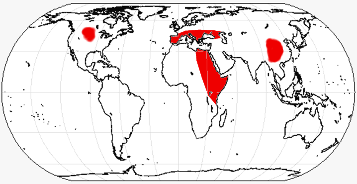 Range of Metailurus